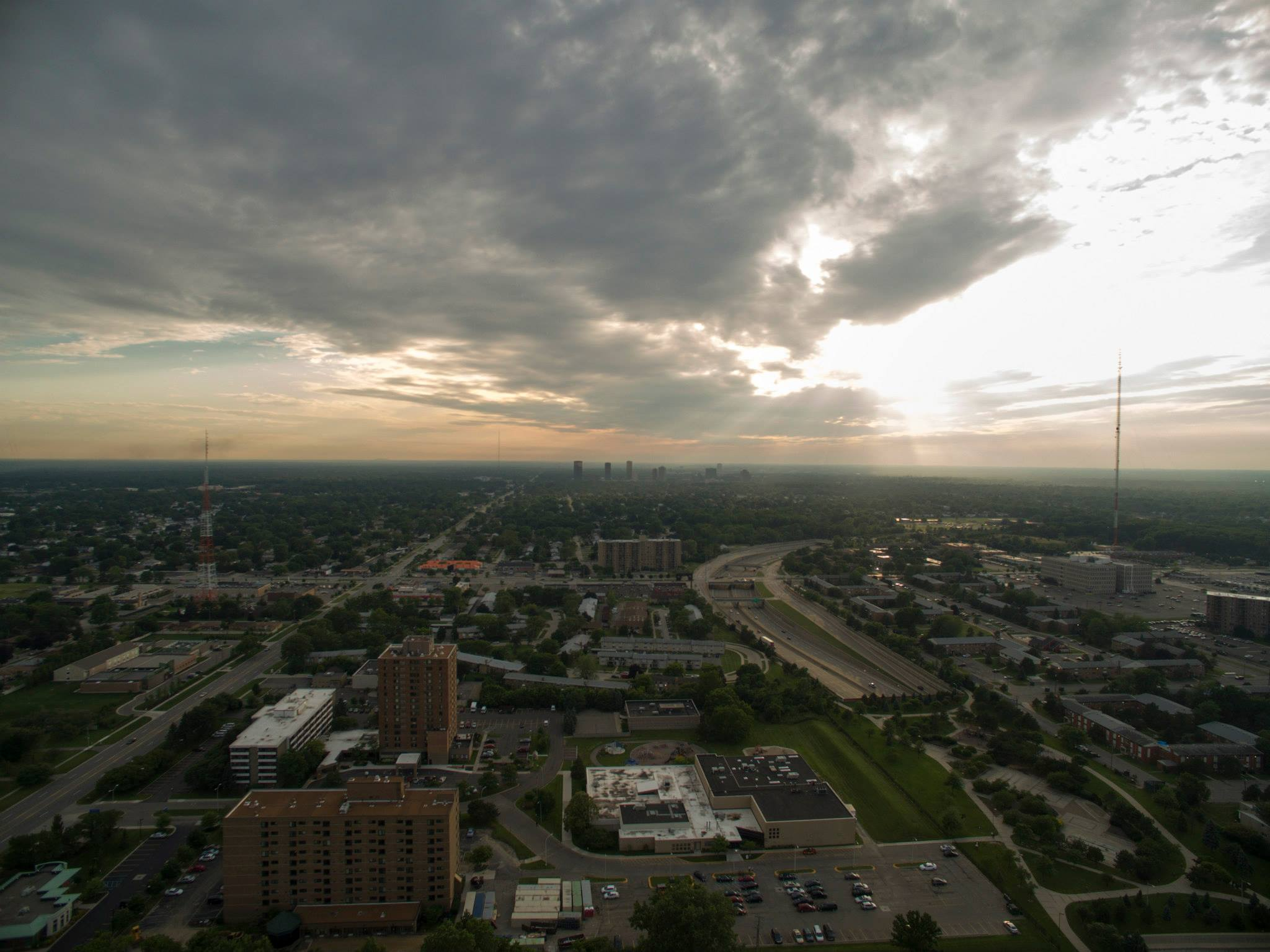 Pedestrian plazas over Interstate 696